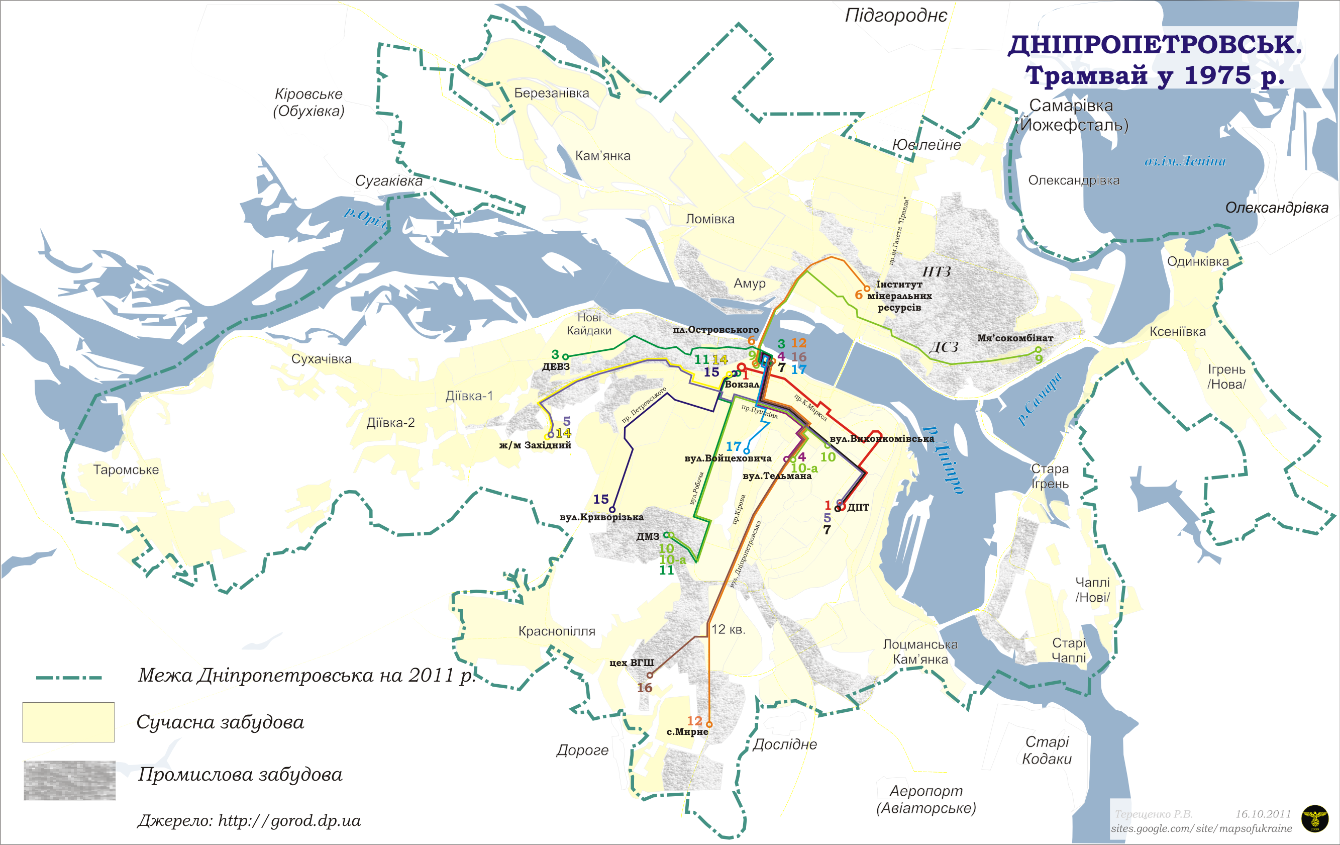 Scheme Dnepropetrovsk tram routes in 1975